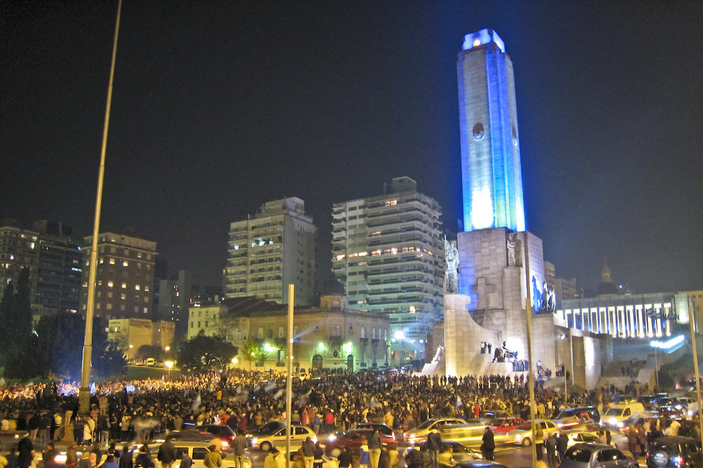 Cacerolazo en Rosario, Monumento a la bandera. Licensing